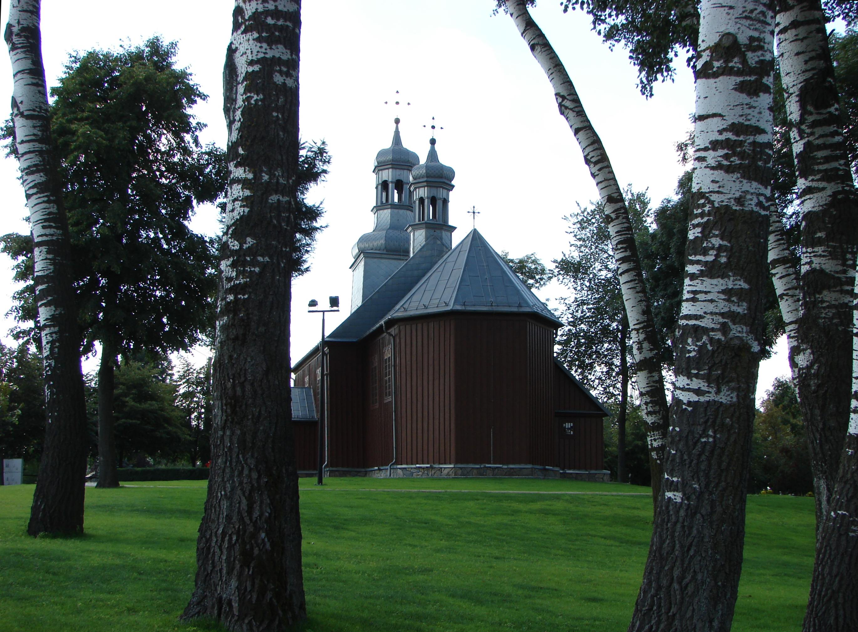 Sędzin, Gmina Zakrzewo, Aleksandrów county, Poland. Wooden church of St. Matthew from 1750.